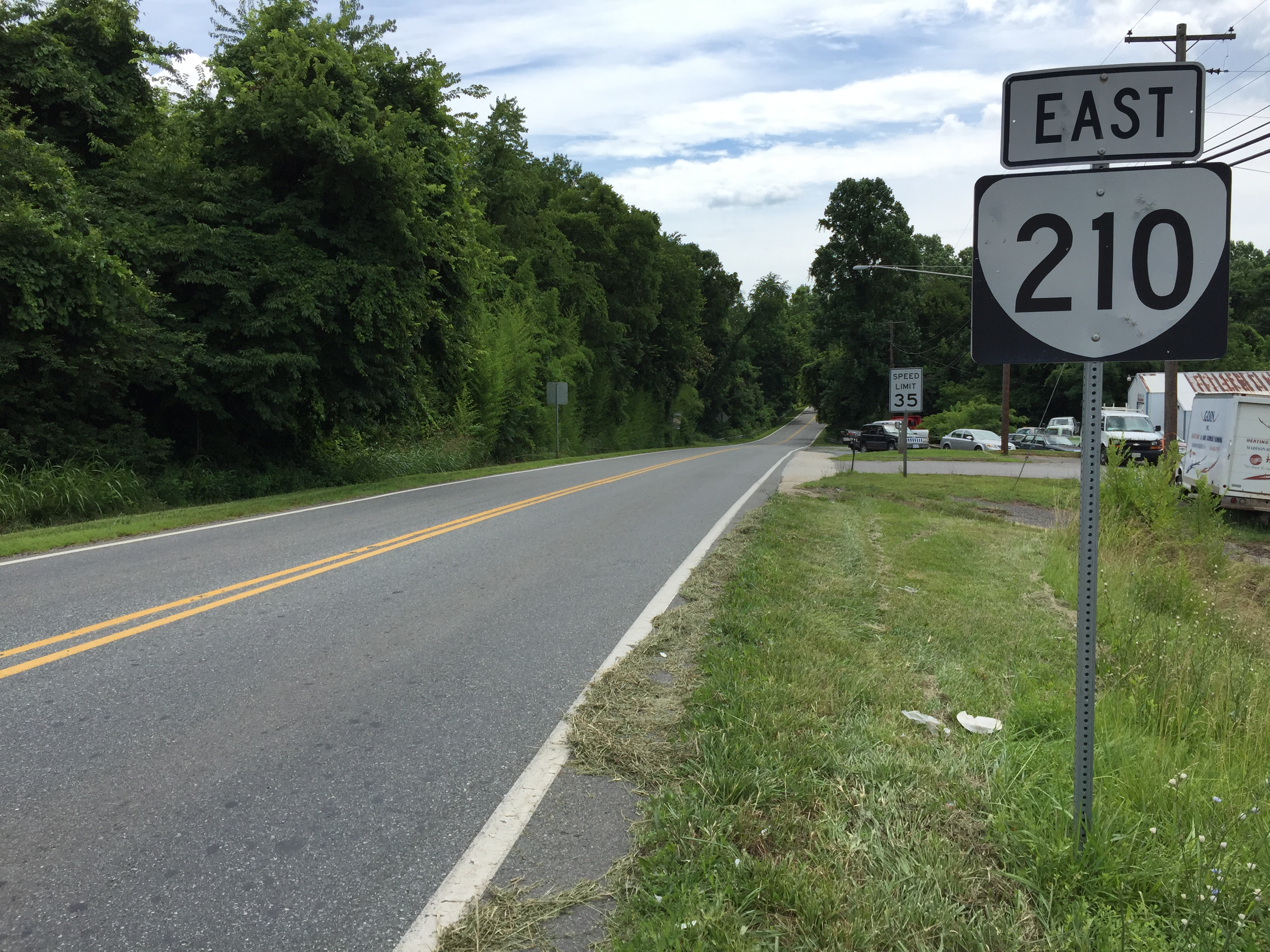 View east along Virginia State Route 210 (Old Town Connector) at Virginia State Route 163 (Amherst Highway) in Madison Heights, Amherst County, Virginia